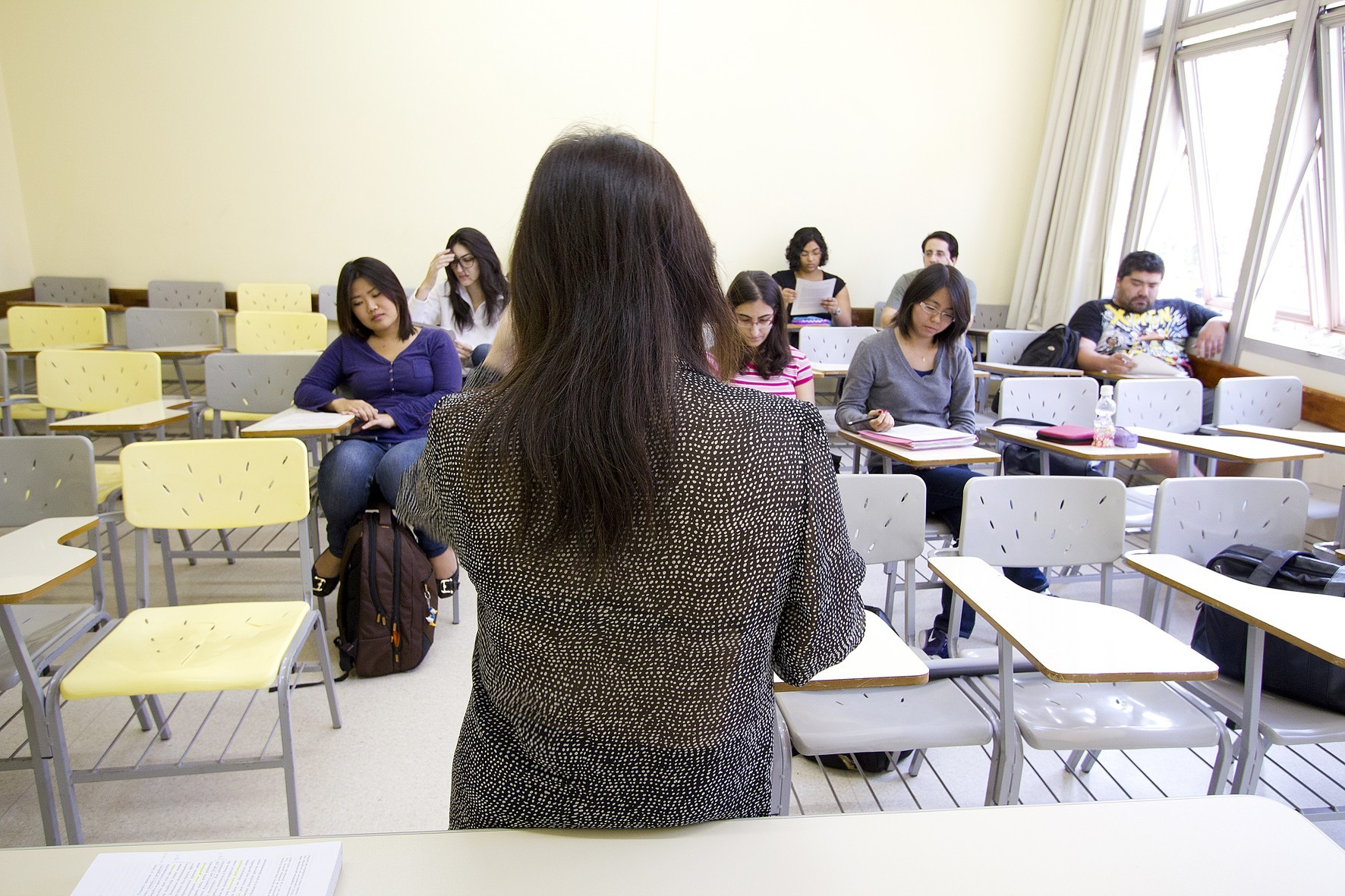 Japanese literature class at the University of São Paulo, Brazil.